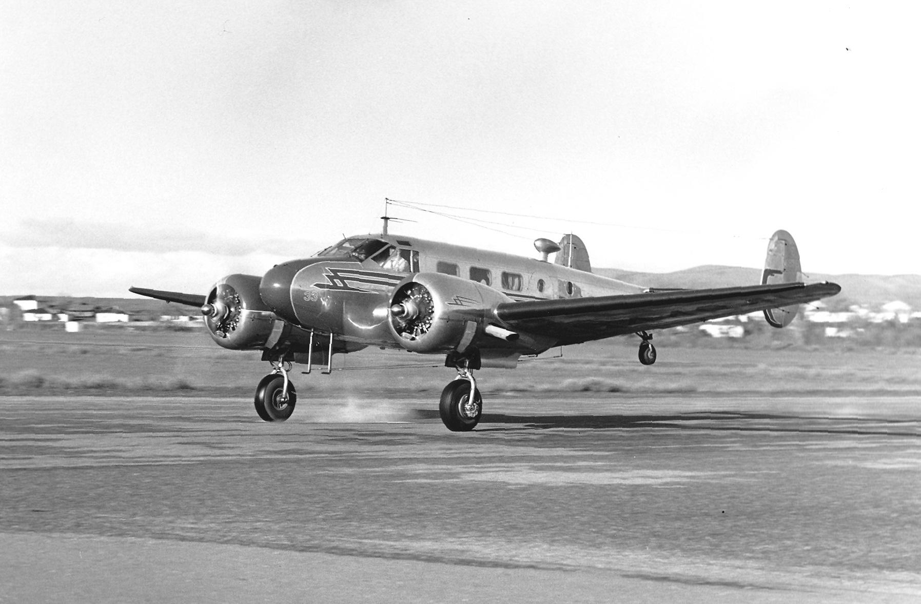 Beech18takeoffBF